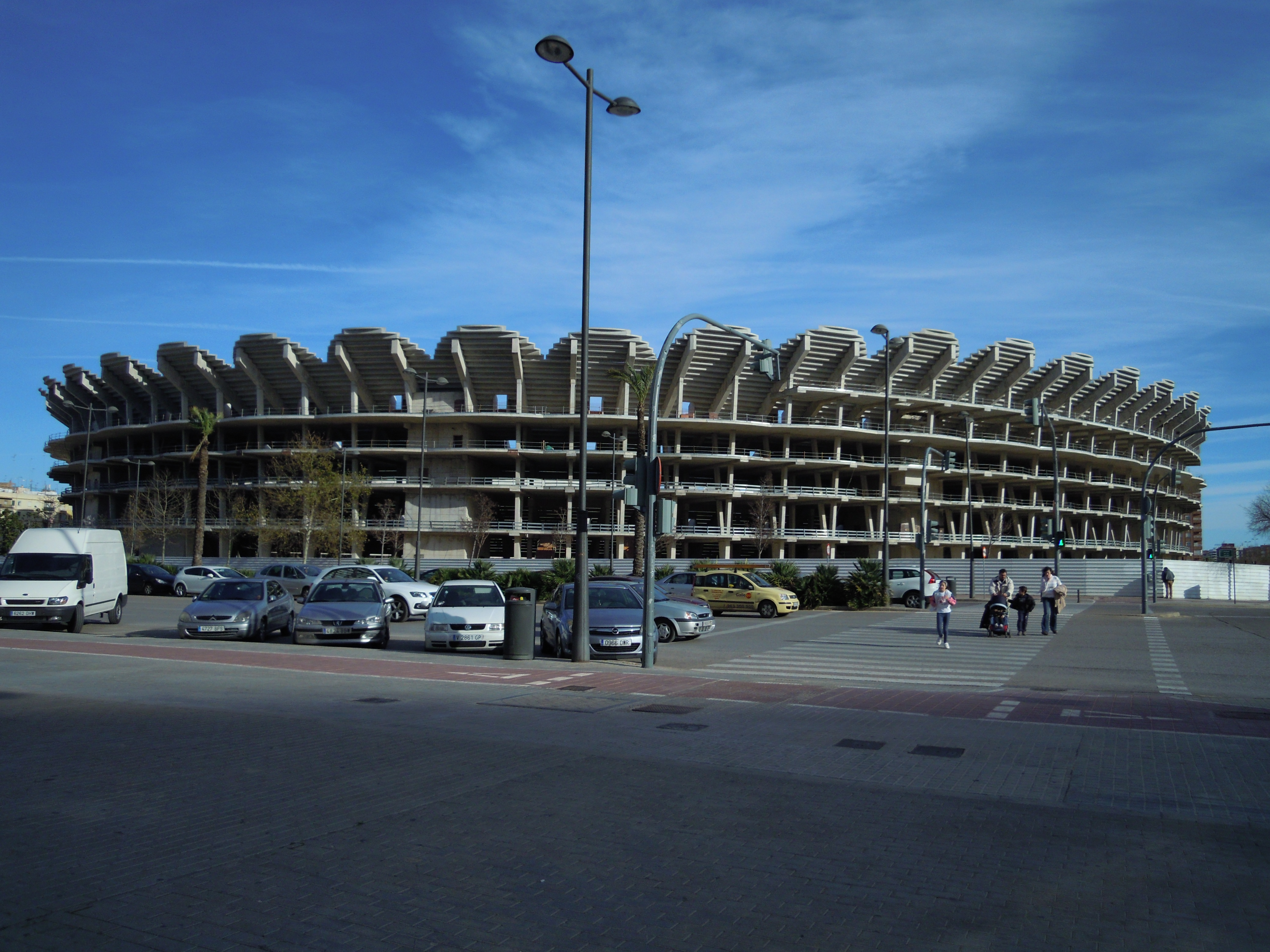 Nou Mestalla stadium at nowadays.